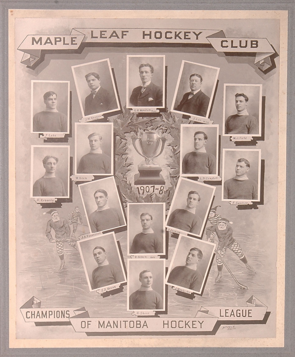 Ice hockey club Winnipeg Maple Leafs of the Manitoba Hockey Association in the 1907–08 season.